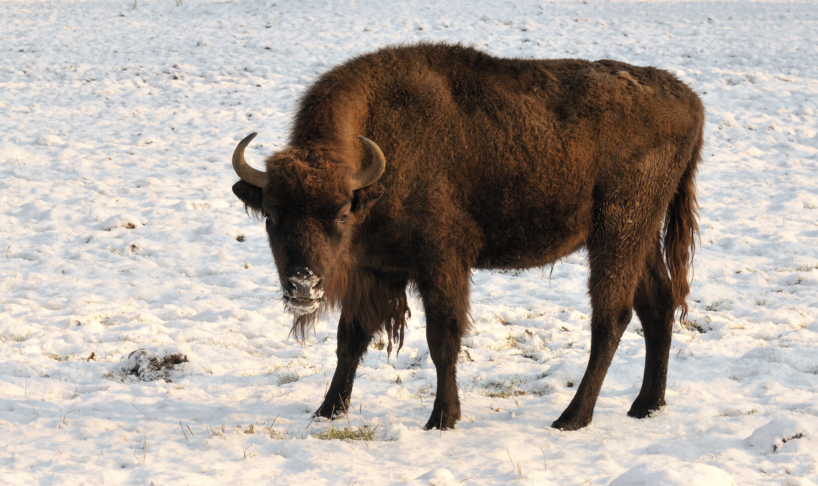 Young Bison bonasus bonasus in the Wisentgehege Springe game park near Springe, Hanover, Germany. The European bison or wisent is the heaviest of the surviving land animals in Europe, with males growing to around 1,000 kg (2,200 lb). European bison were hunted to extinction in the wild, but have since been reintroduced from captivity into several countries.